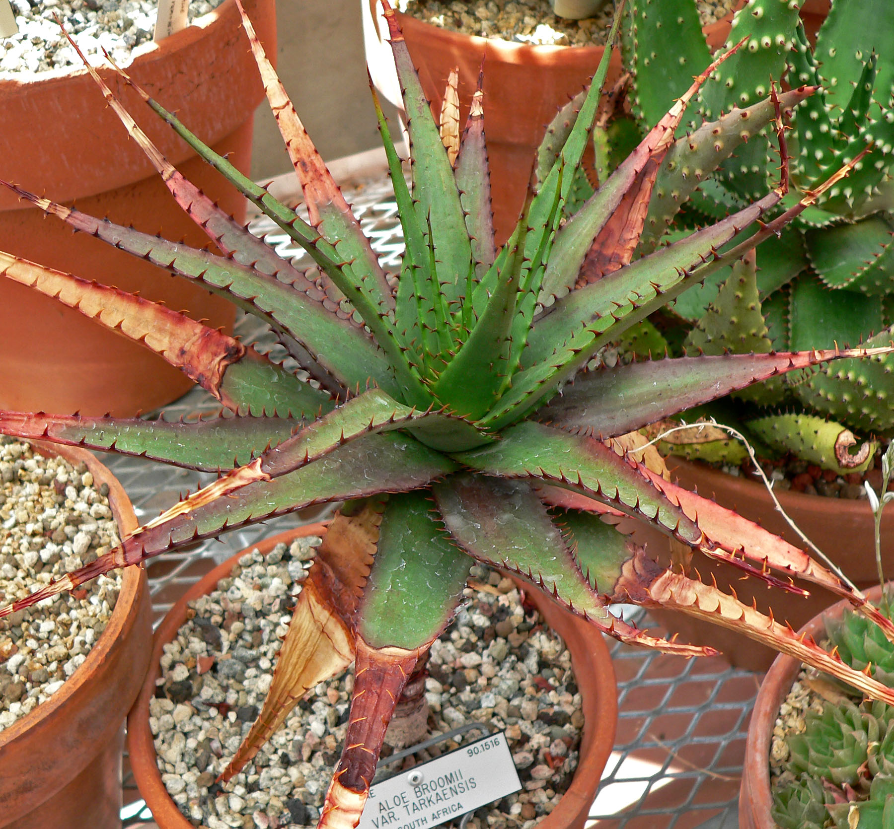 Aloe broomii var. tarkaensis at the University of California Botanical Garden, Berkeley, California